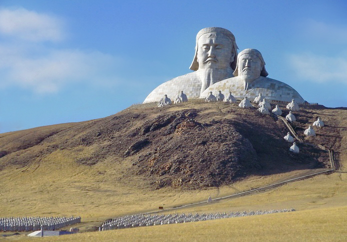 Photography of the Genghis Khan memorial in Holin Gol China.